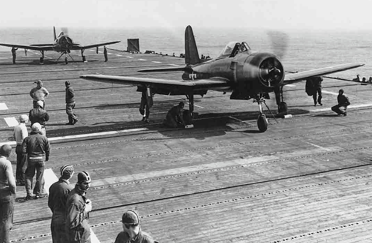 Two U.S. Navy Ryan FR-1 Fireball fighters during carrier qualifications aboard the aircraft carrier USS Ranger (CV-4), in May 1945.